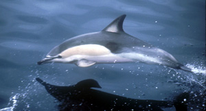 A common dolphin. Photo by NOAA. Source: [1] Category:Cetacea images Source: [2] Dolpins are not endangered.Their brain is bigger than the monkey.